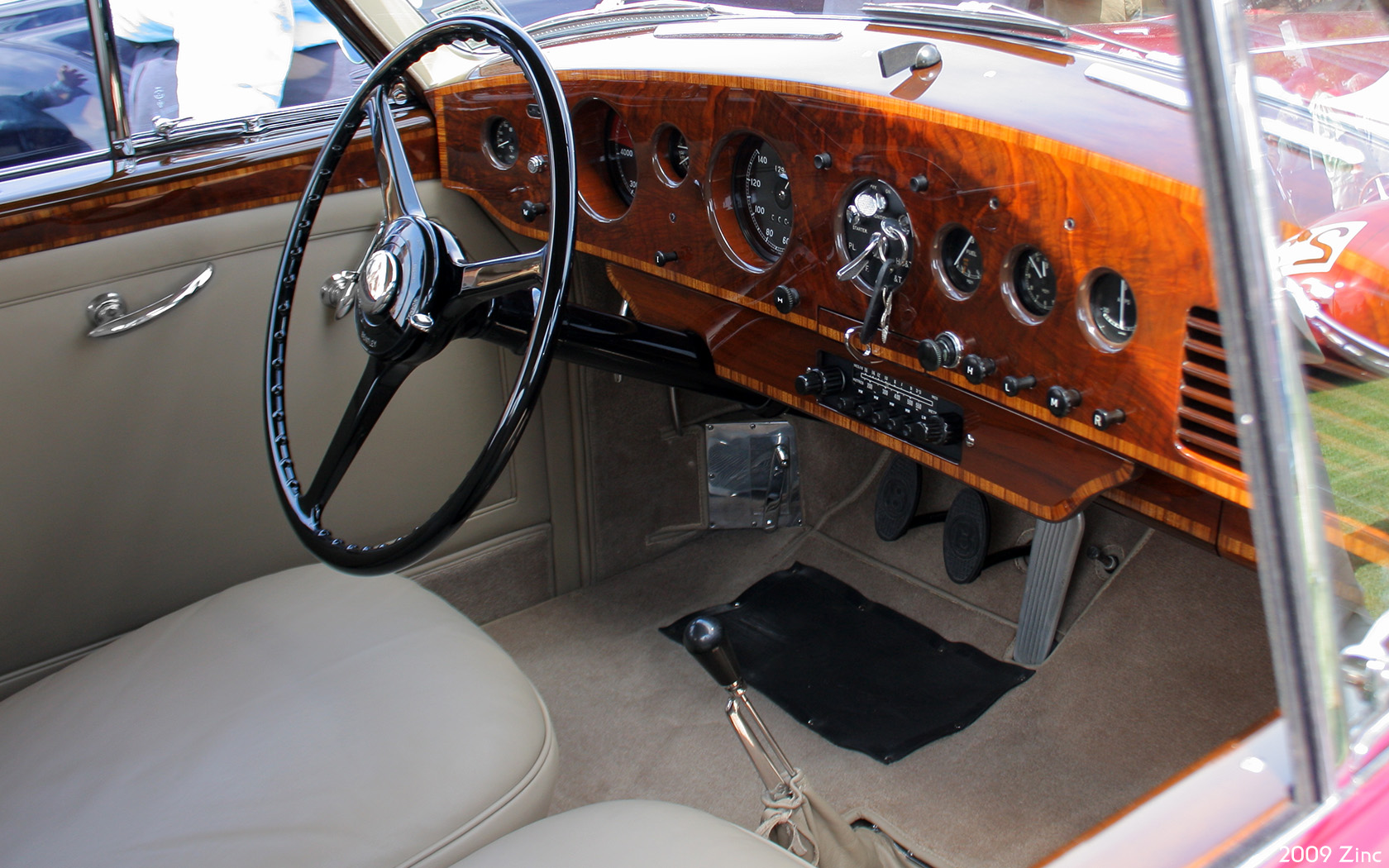 Pebble Beach Concours d'Elegance, Aug 16, 2009